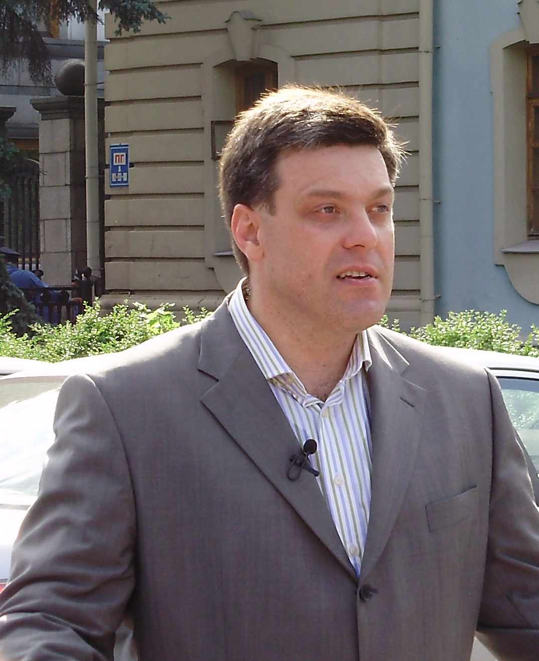 Oleh Tiahnybok.